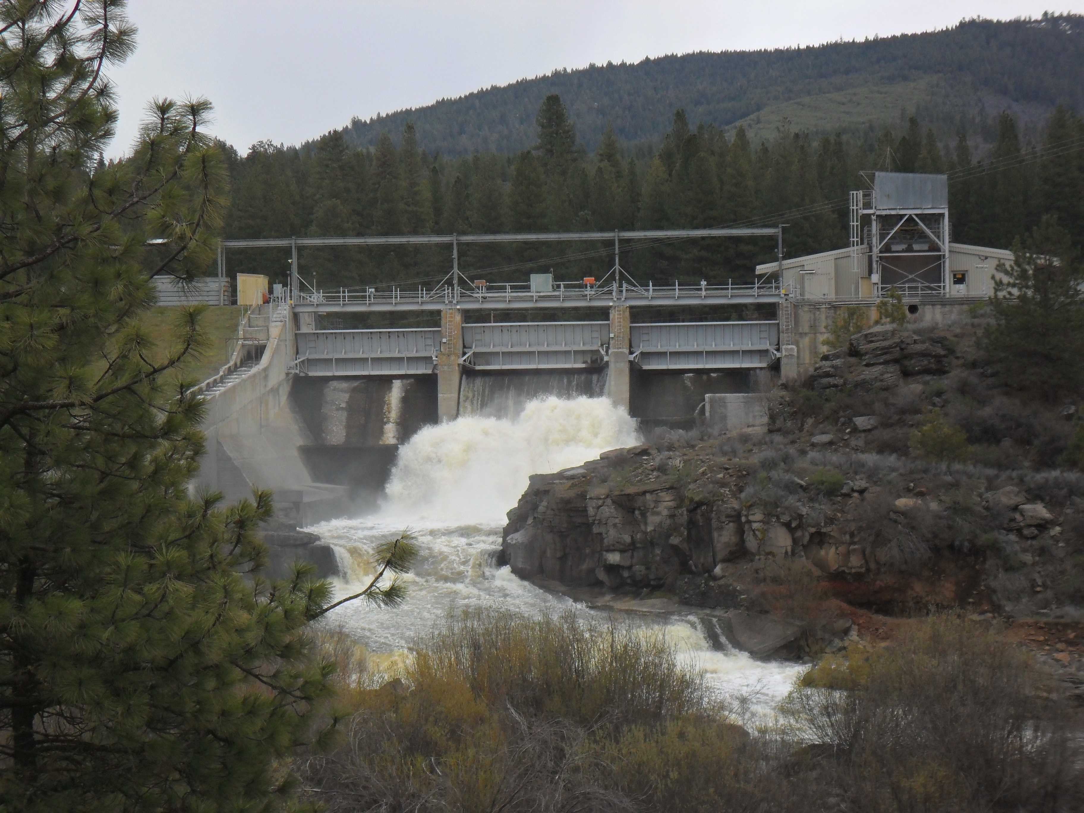 John C. Boyle Dam, gates open.